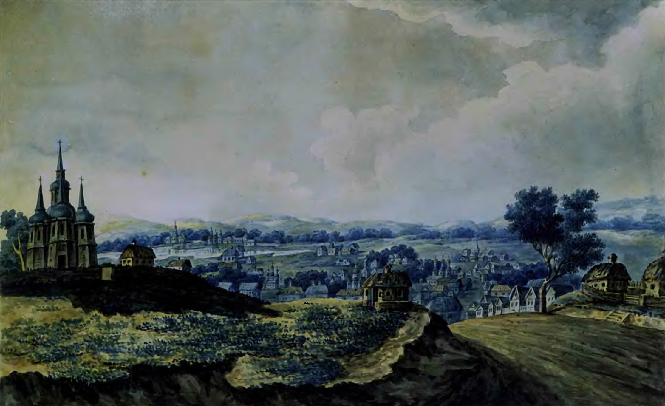 View of the Town of Sanzhary.label QS:Len,"View of the Town of Sanzhary." label QS:Luk,"Вигляд містечка Санжари."